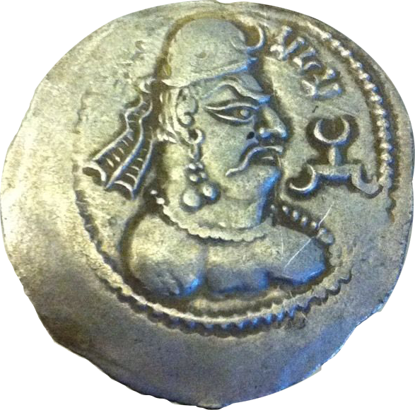 Mehama, Alchon hun silver drachm